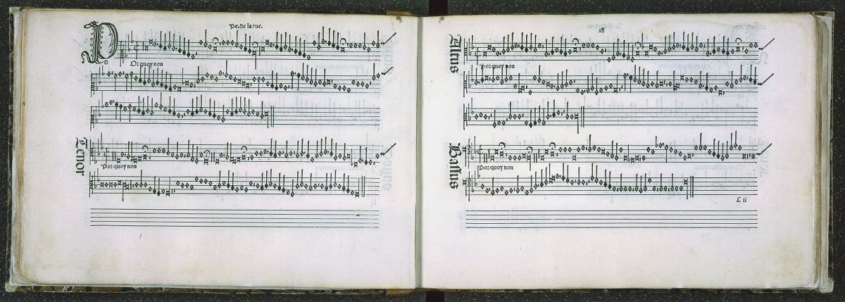 Page with the song Pourquoy non from the Harmonice Musices Odhecaton by Pierre de la Rue (1501).